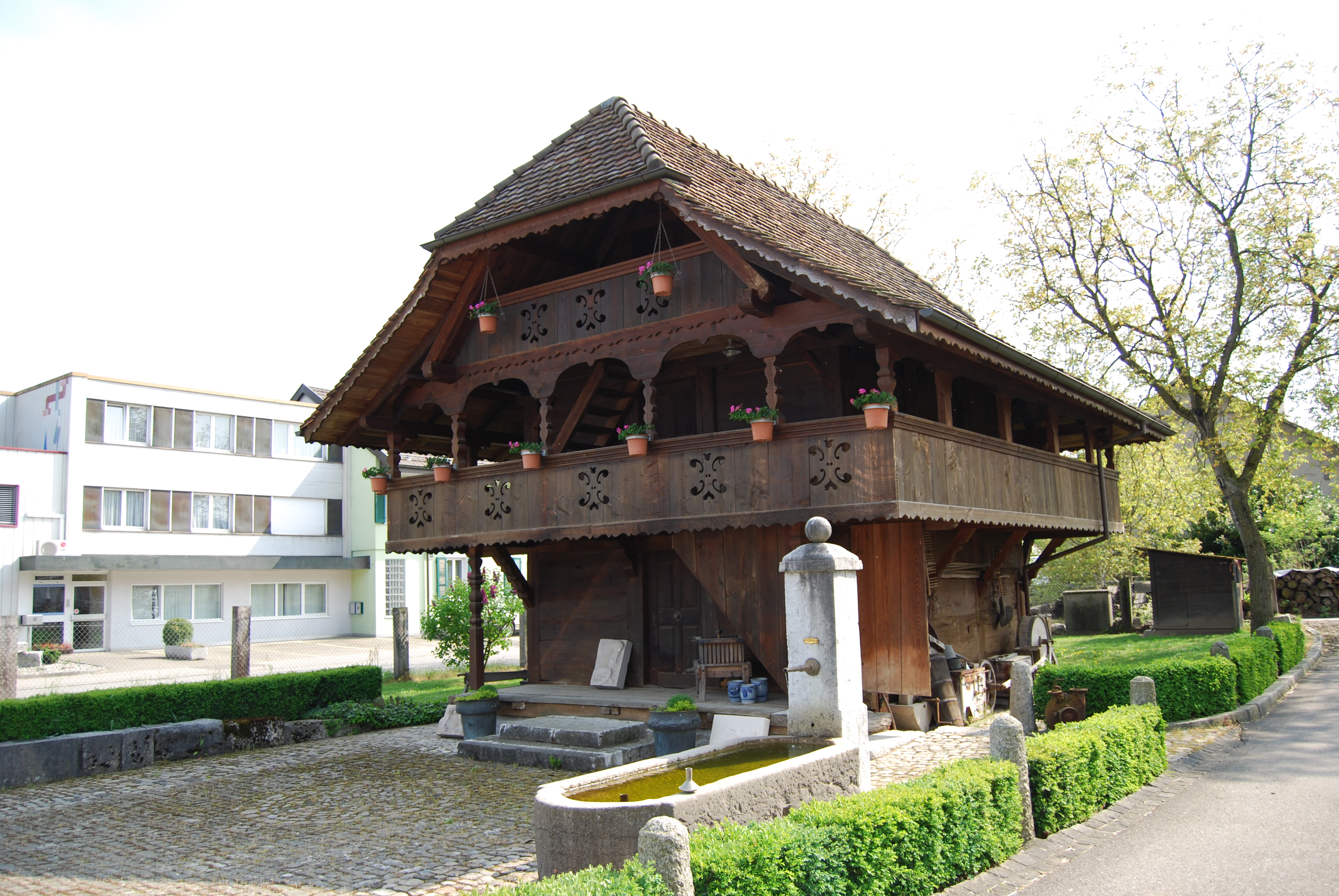 Store house at Gunzgen, canton of Solothurn, Switzerland